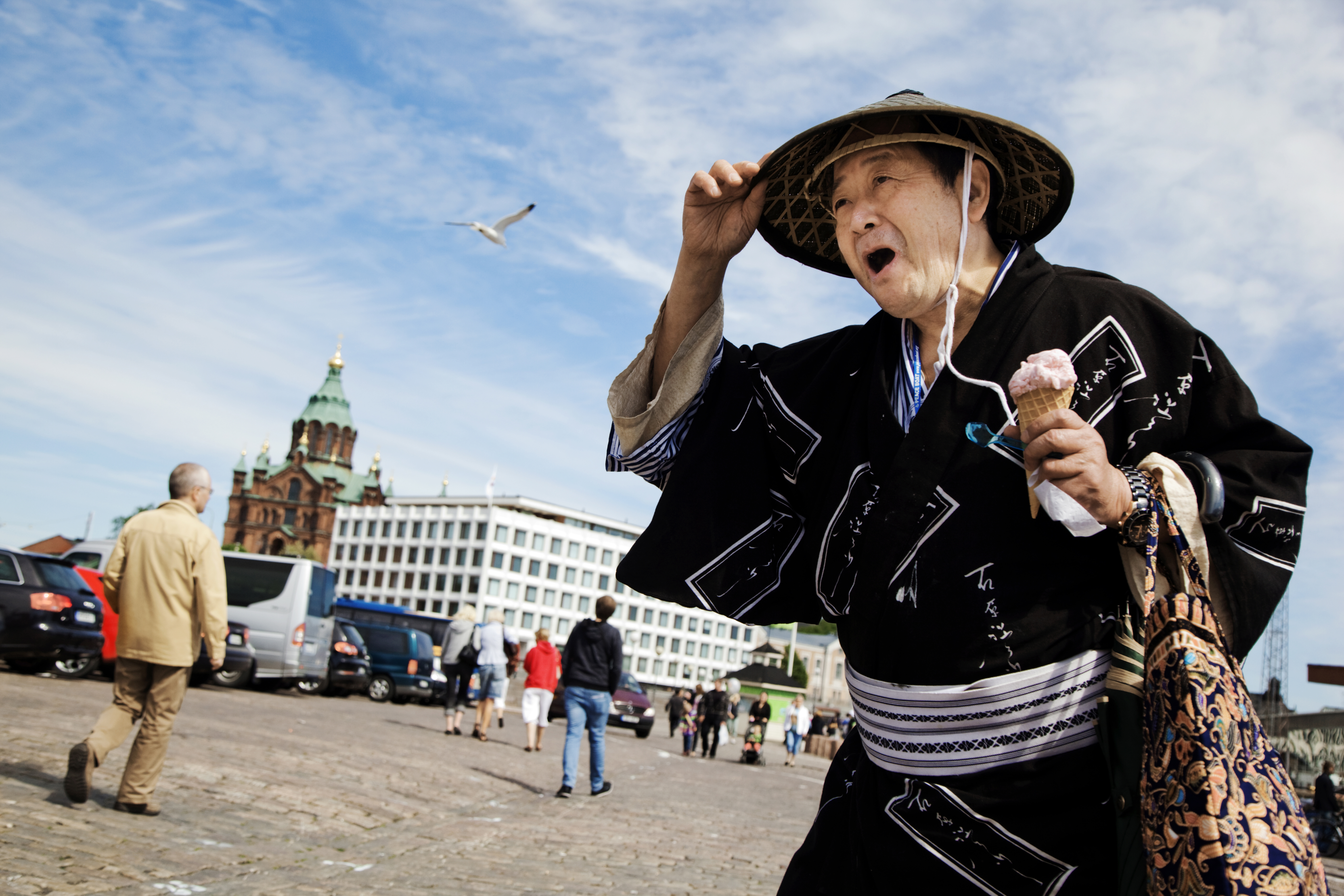 Kimono, Urban life, Finland